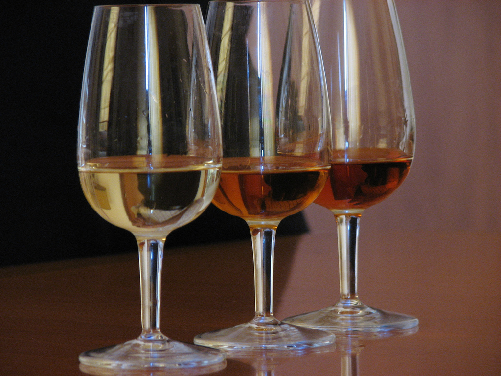 Several types of Marsala including oro and ambra